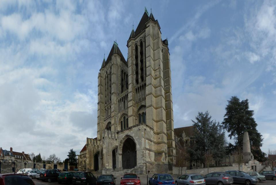 Cathedral of Notre Dame (noyon France)